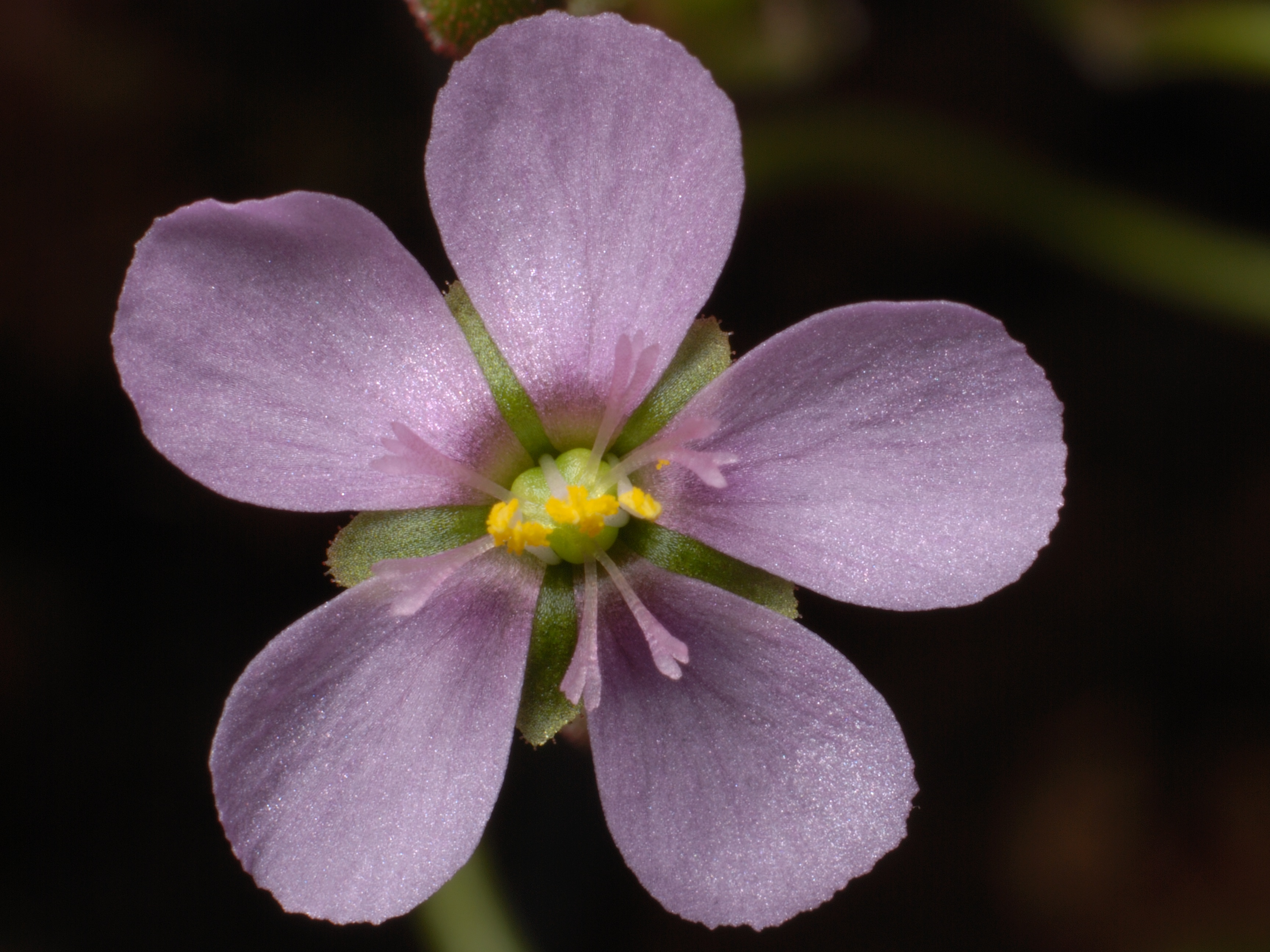 Drosera spatulata